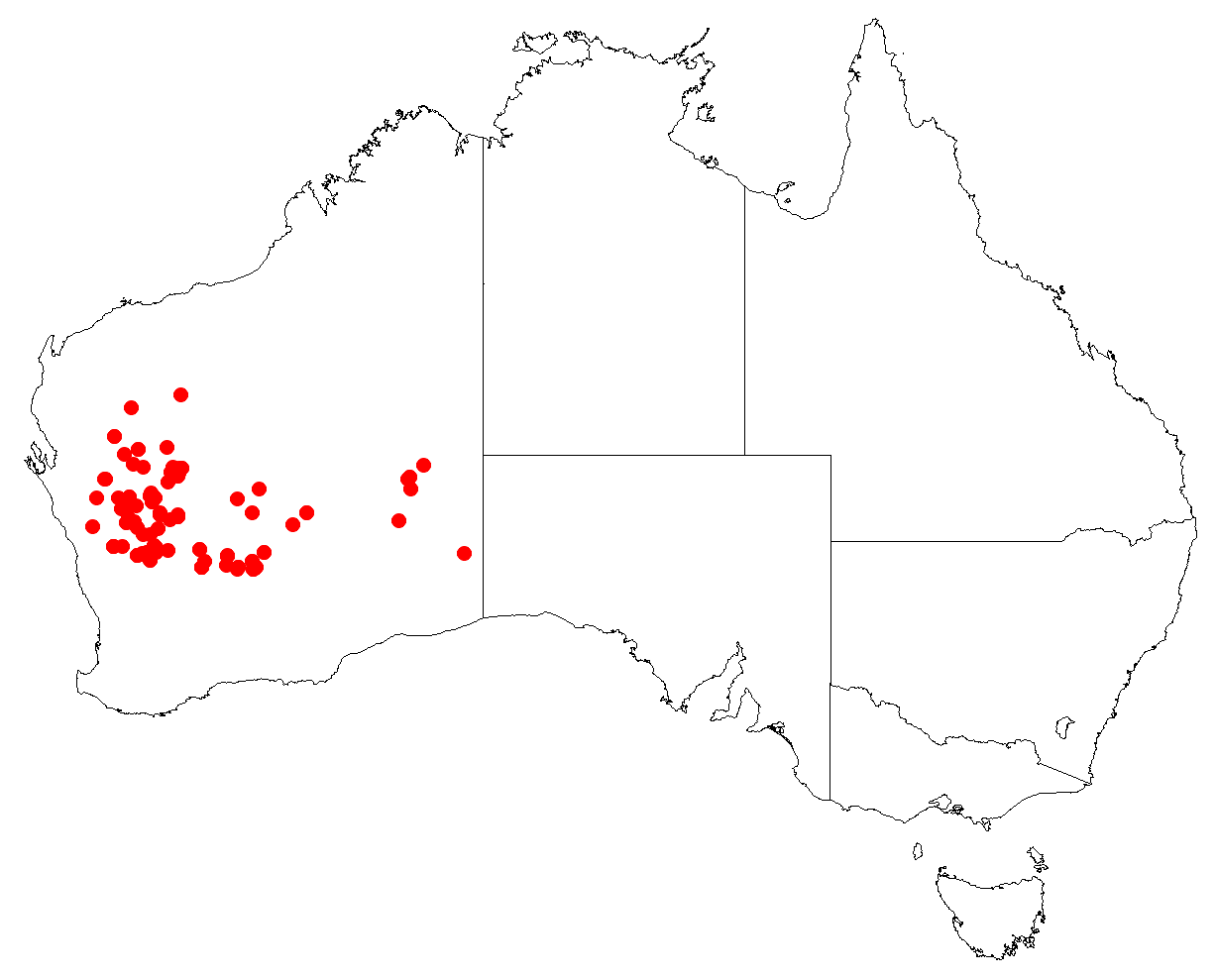 Australian distribution of Amyema nestor based on download from Australasian Virtual Herbarium May 9, 2018